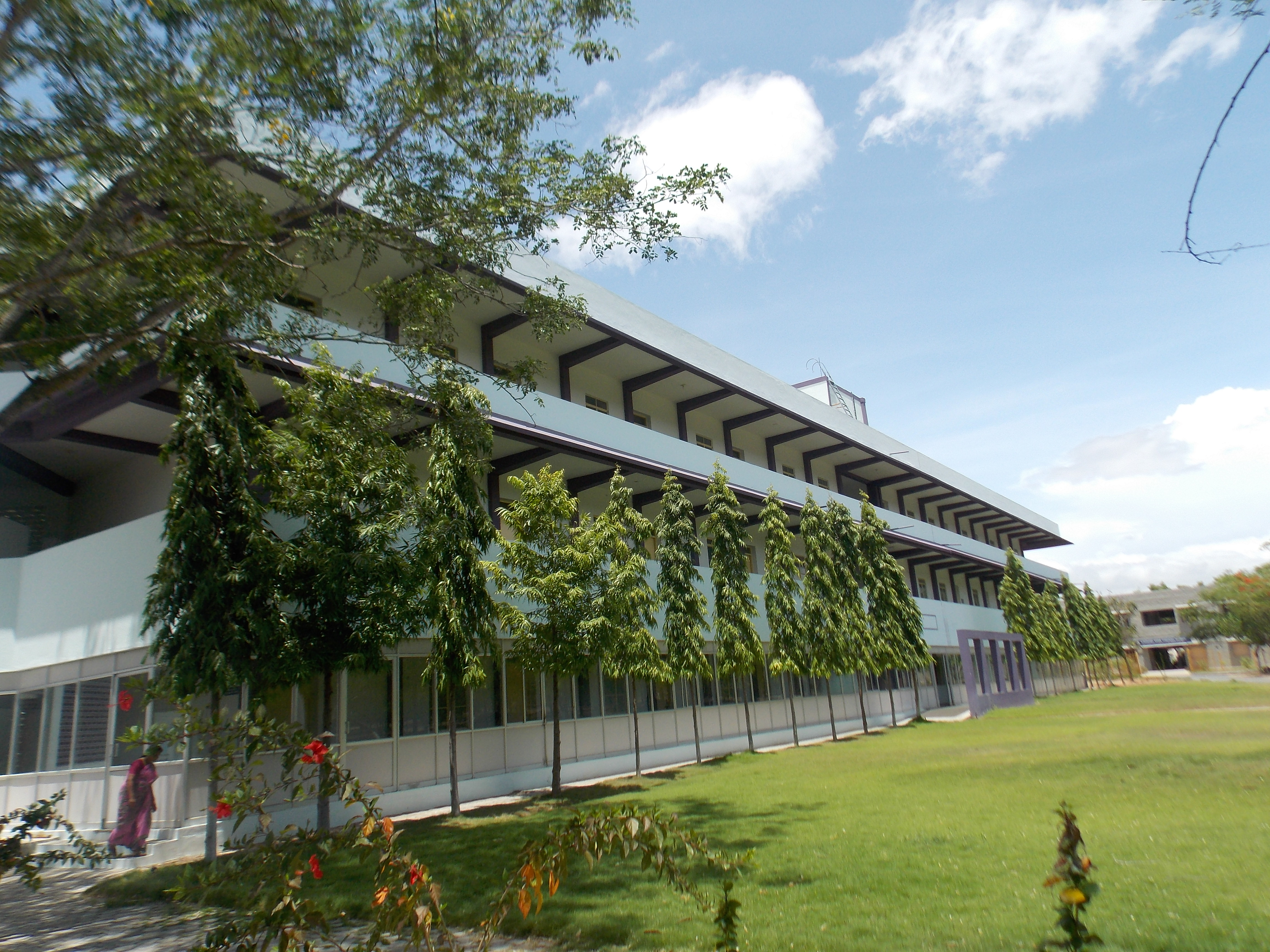 Academic block in Ramakrishna Mission Vivekananda University, Coimbatore Campus